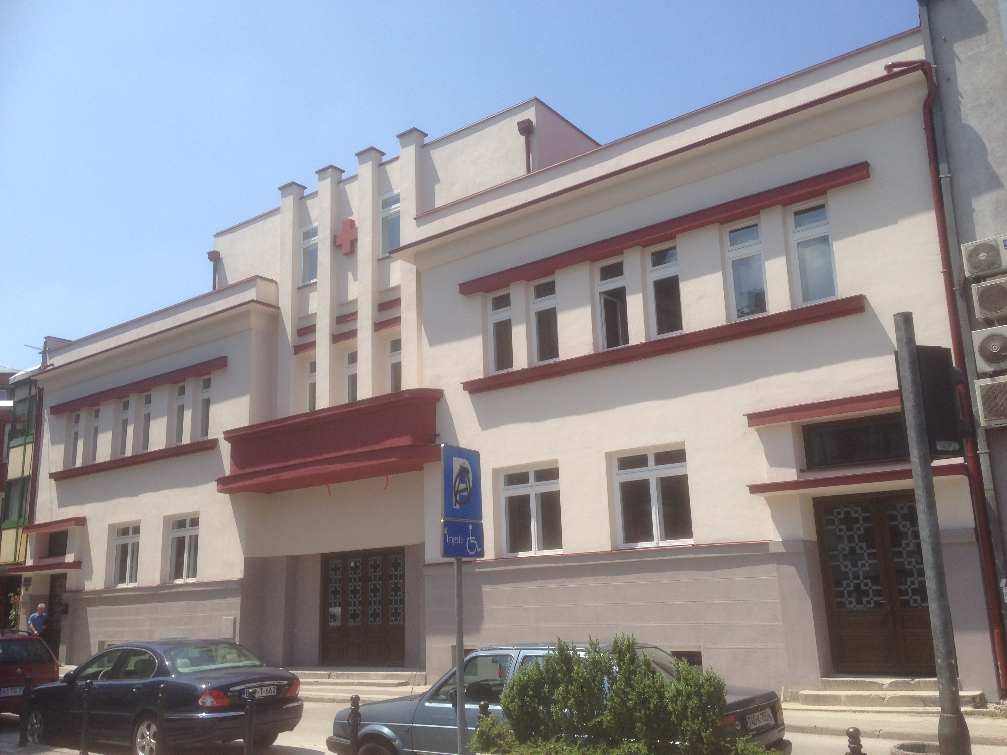 Building Red cross